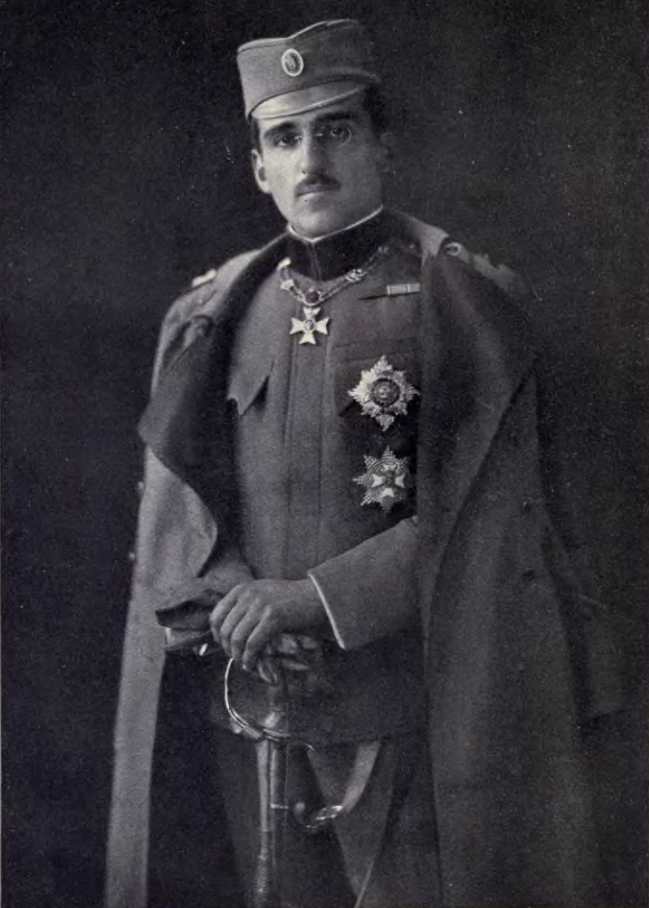 Serbian Prince and later Yugoslavian king Alexander Karađorđević.